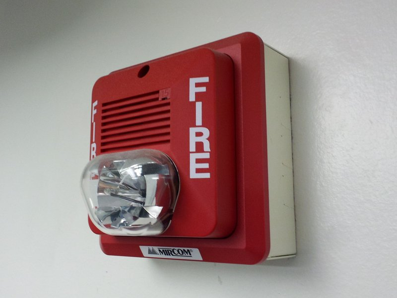 Morcom fire alarm horn/strobe at 8555 16th Street in Silver Spring, Maryland.